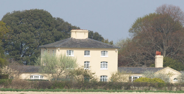 Itchenor House